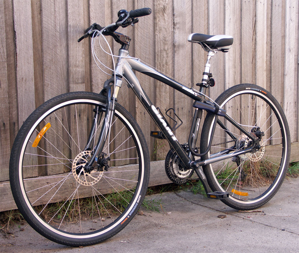 I, Ian Donaldson, took this picture on the 2nd April 2005, and I place it under the GFDL. The 2005 Giant Innova is a 700C hybrid bicycle. It has 27 speeds, front fork and seat suspension, an adjustable stem and disc brakes for all-weather stopping power.